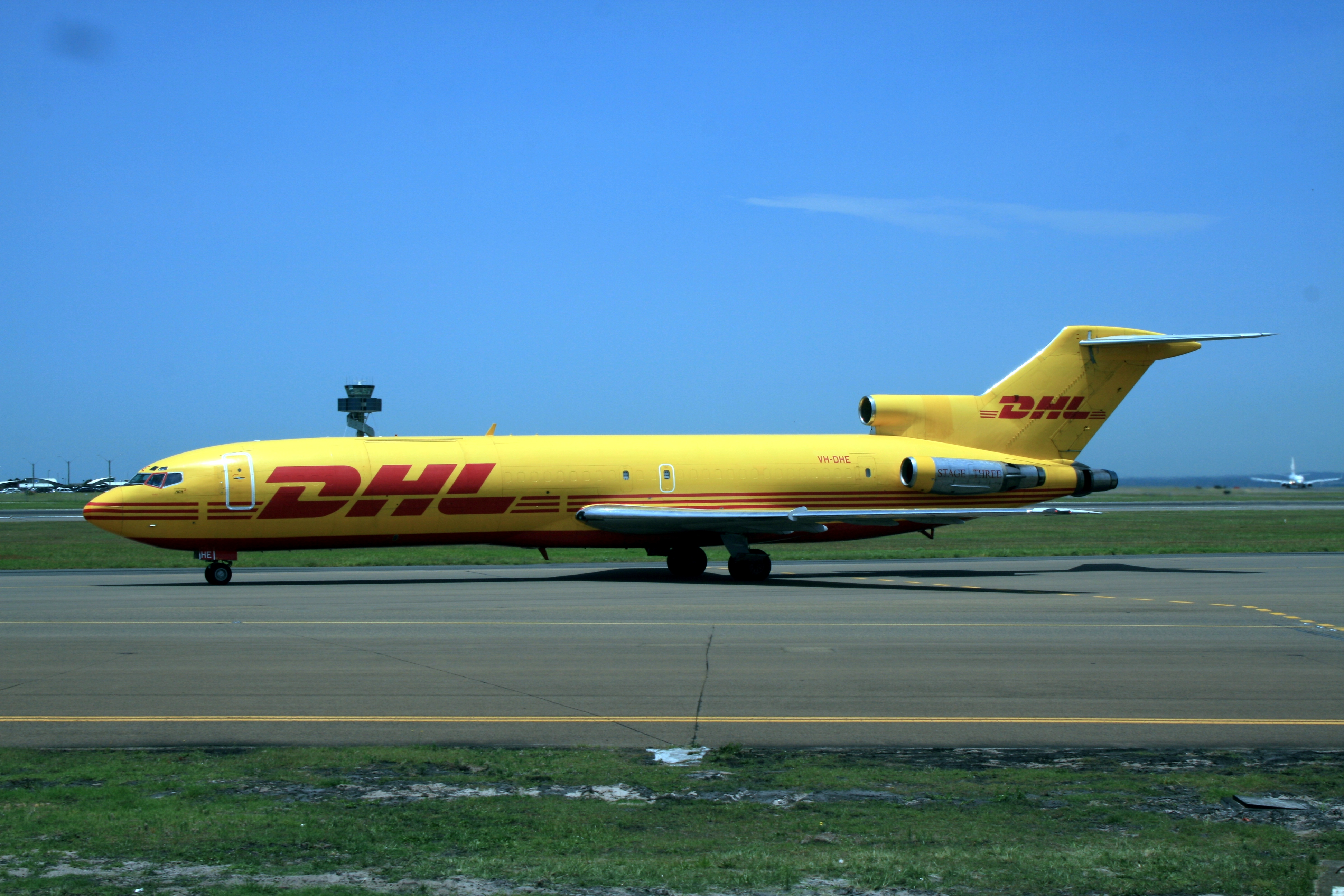 Asian Express Airlines Boeing 727-200 freighter conversion with ICAO Stage III-compliant hushkits fitted to the engines. New name since October 2008: Tasman Cargo Airlines. Registration: VH-DHE